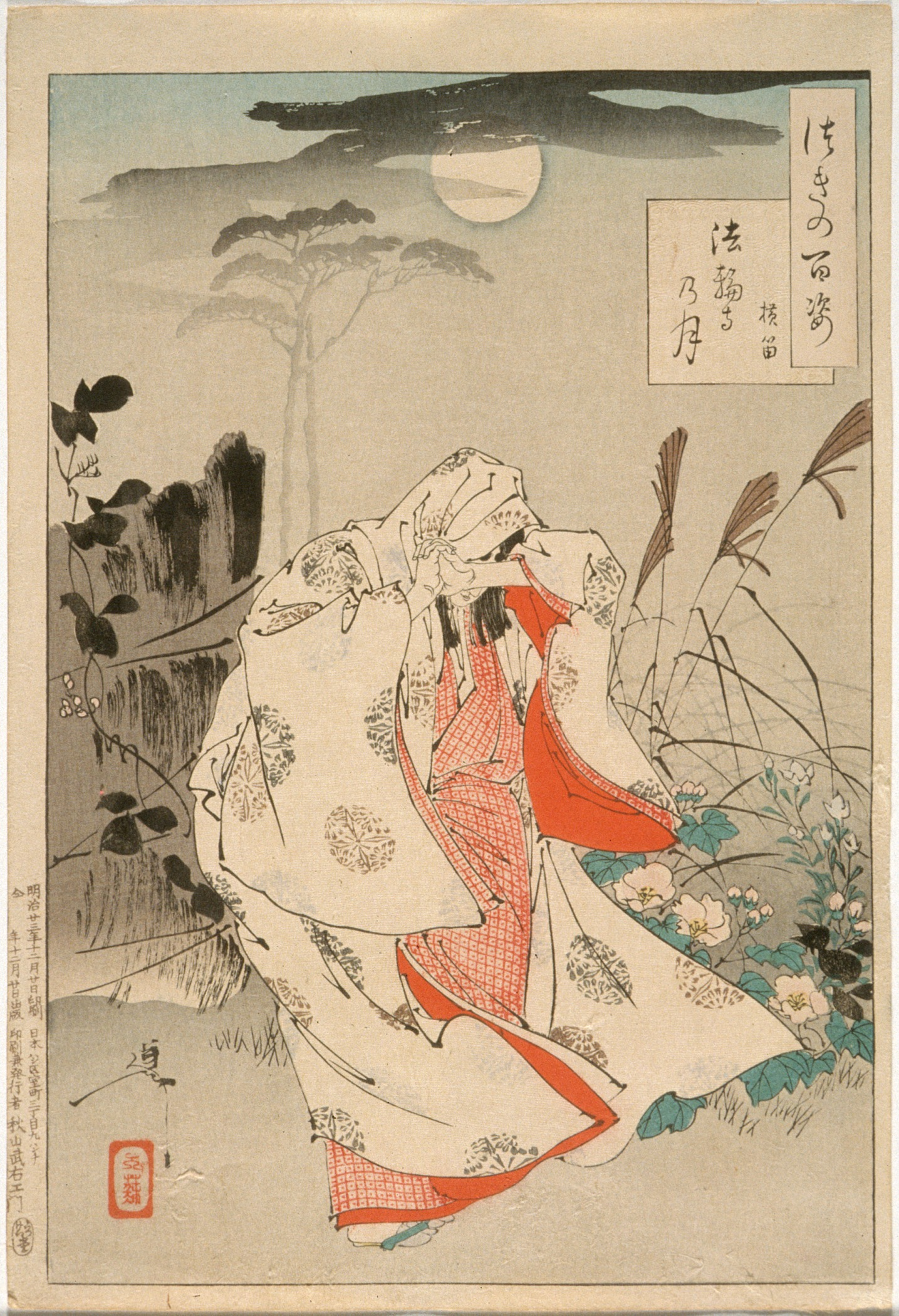 Japan, 12/1890 Series: One Hundred Aspects of the Moon Prints; woodcuts Color woodblock print Karl O. Tuschka Bequest (M.88.219.2) Japanese Art